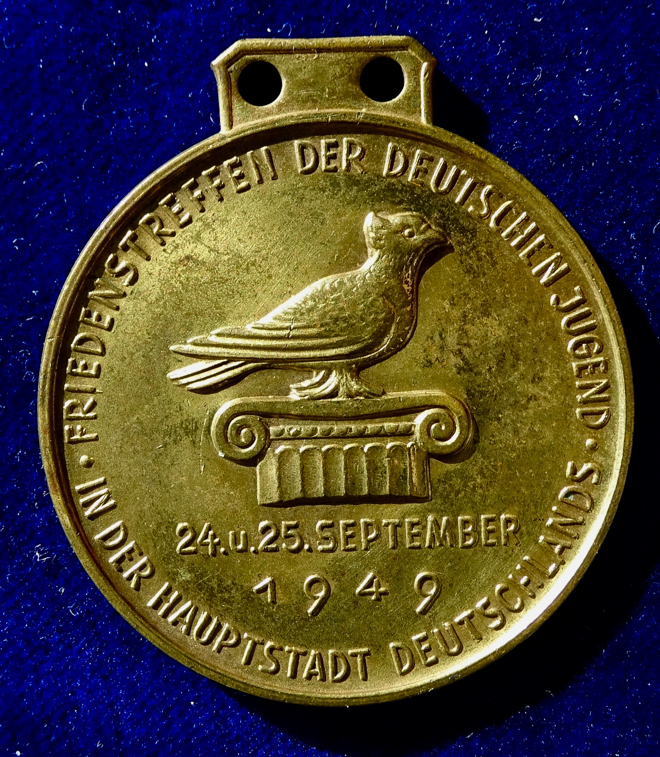 Berlin 1949 FDJ (Free German Youth) Peace Convention Participants Medal. Gilt bronze, d. = 41 mm. 2 lines below dove on pillar r.: "24. u. 25. SEPTEMBER 1949. Surrounding: "• FRIEDENSTREFFEN DER DEUTSCHEN JUGEND • IN DER HAUPTSTADT DEUTSCHLANDS •" / Radiant "FDJ" above Funkturm Berlin (Berlin Radio Tower), Brandenburg Gate, Berlin Cathedral, Rotes Rathaus (Red City Hall). 1 line below: "BERLIN", curved below: "NIEMALS AMBOSS IMMER HAMMER". Condition: UNCIRCULATED.